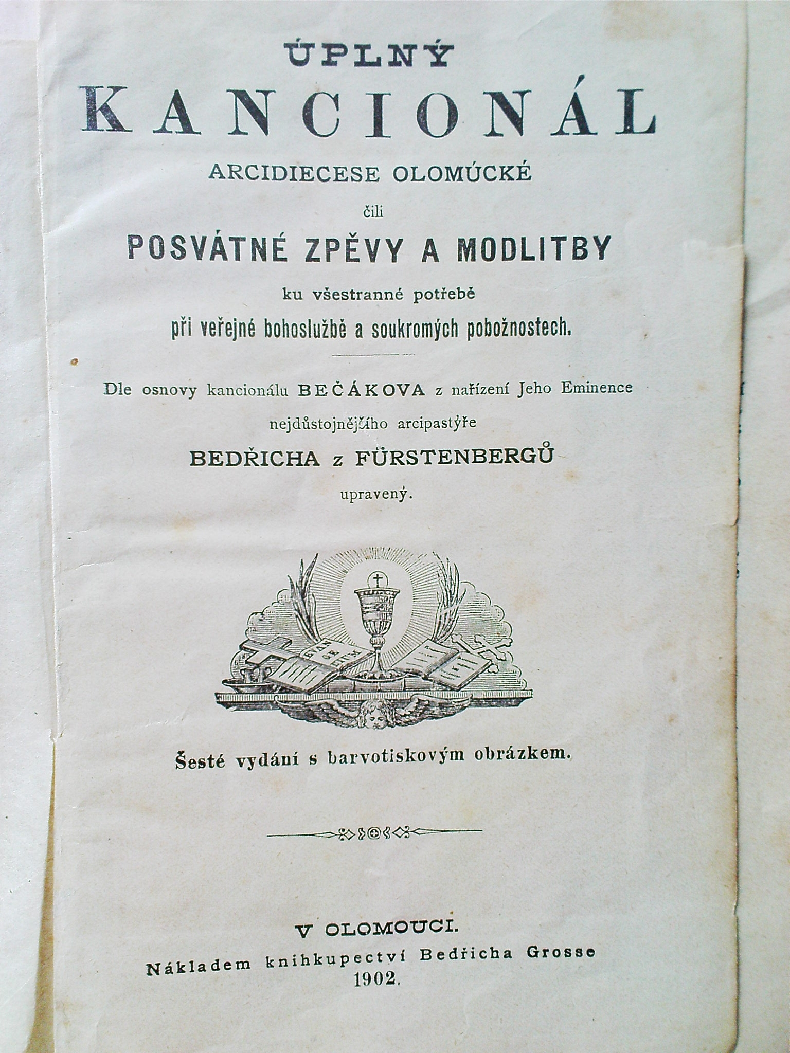 Czech catholic hymnbook (published in 1902 in Olomouc, Austria-Hungary, today Czech Republic)